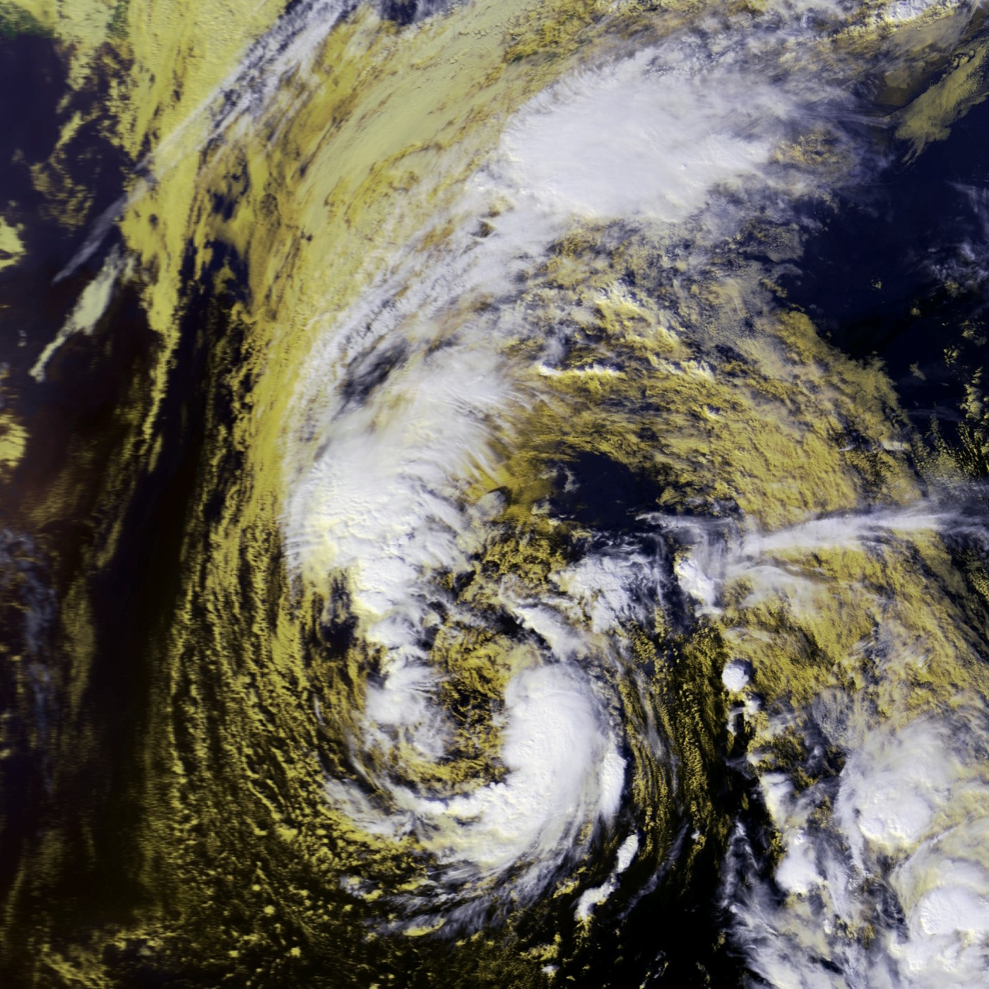 Hurricane Noel on November 5 at approximately 1611 UTC. This image was produced from data from NOAA-16, provided by NOAA.